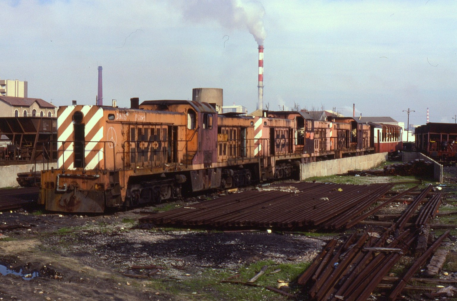 Withdrawn class 1301 locos nos. 1311, 1307 and 1301 lined up at Barreiro depot on 30 November 1990. These had been out of service for some years by this point. 12 of these centre cabbed locos were delivered to Portugal in 1952. Built by the Whitcomb Locomotive Co. in Illinois, USA. They were used for both freight and passenger work.